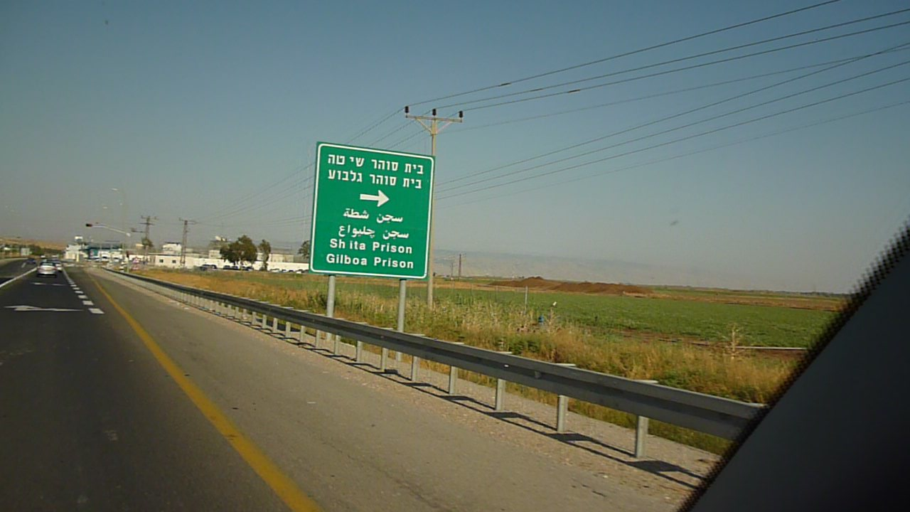 Gilboa Prison, Israel